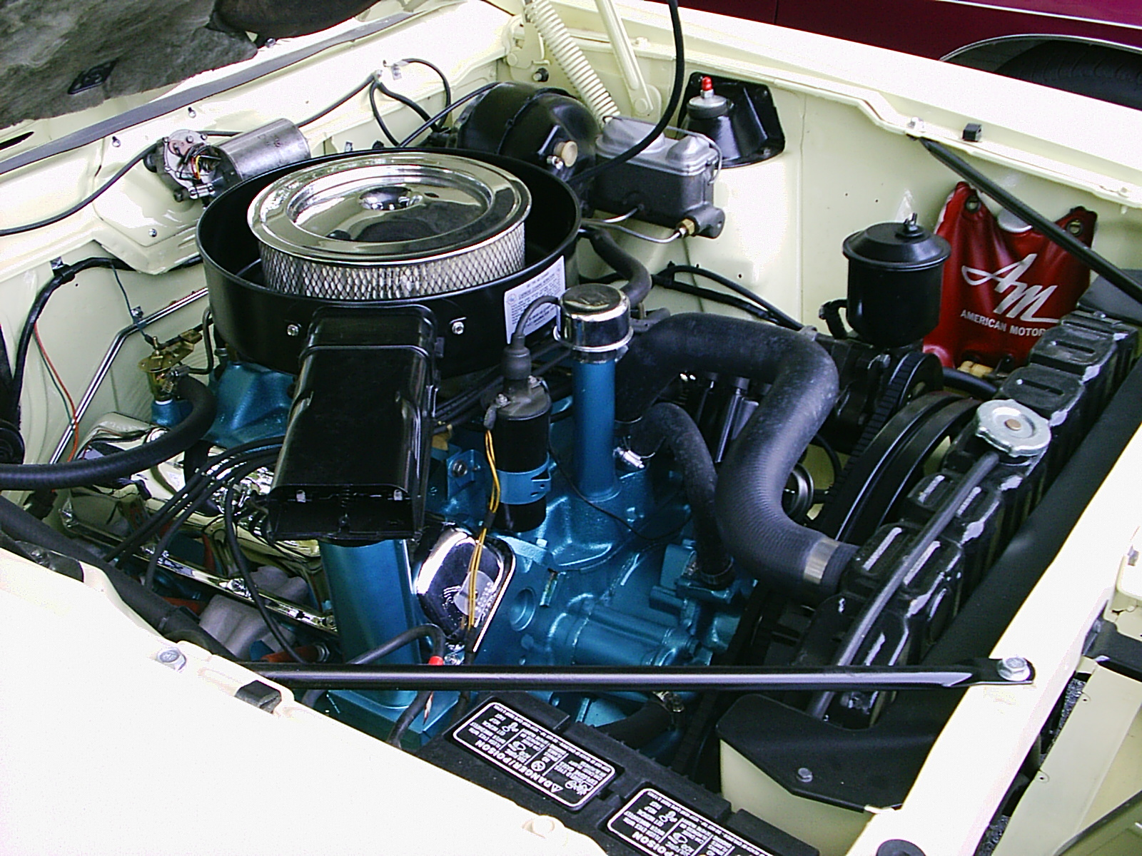 1970 Javelin SST 390 CID (6.4 L) 315 hp (235 kW) V8 engine bay. Automobile built by American Motors Corporation (AMC). A muscle "pony car". This shows the factory "Go Package" version that included the ram-air hood and other high-performance components.